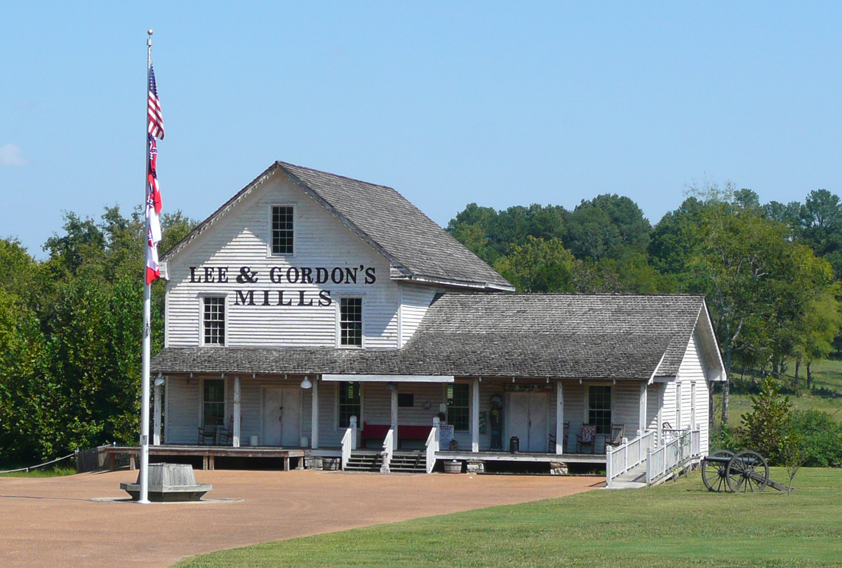 Photograph of Lee and Gordon's Mills near Chickamauga and Chattanooga National Military Park.